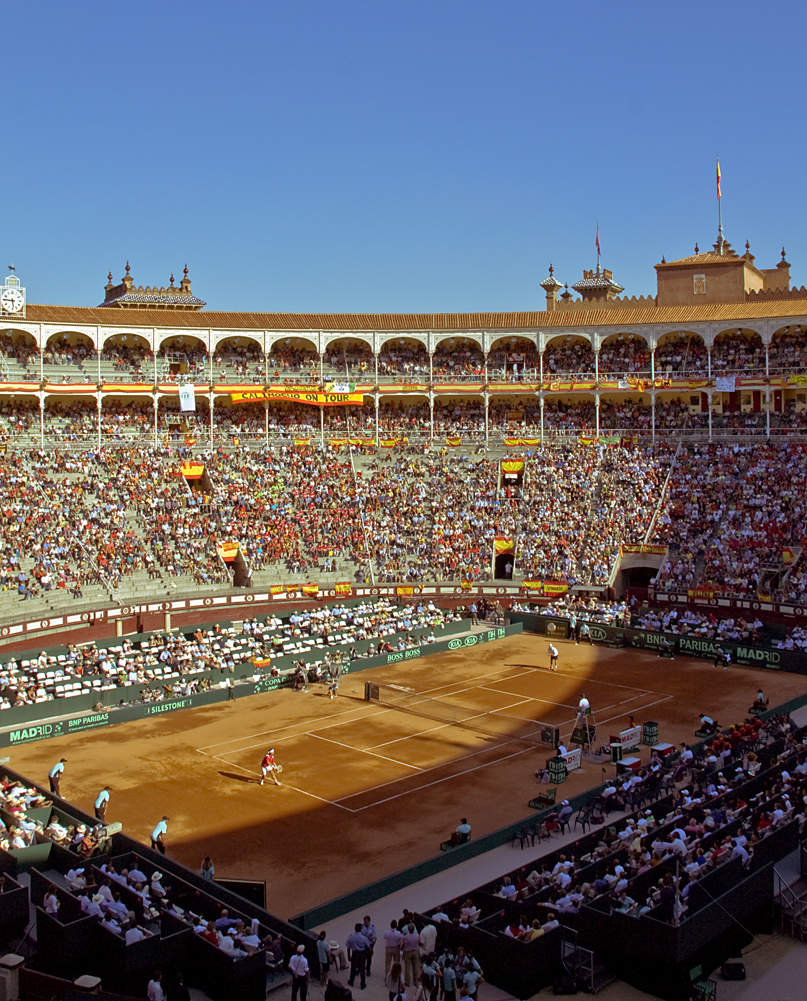 David Ferrer (winner) Vs Andy Roddick. Semifinal Copa Davis 2008. Las Ventas, Madrid.